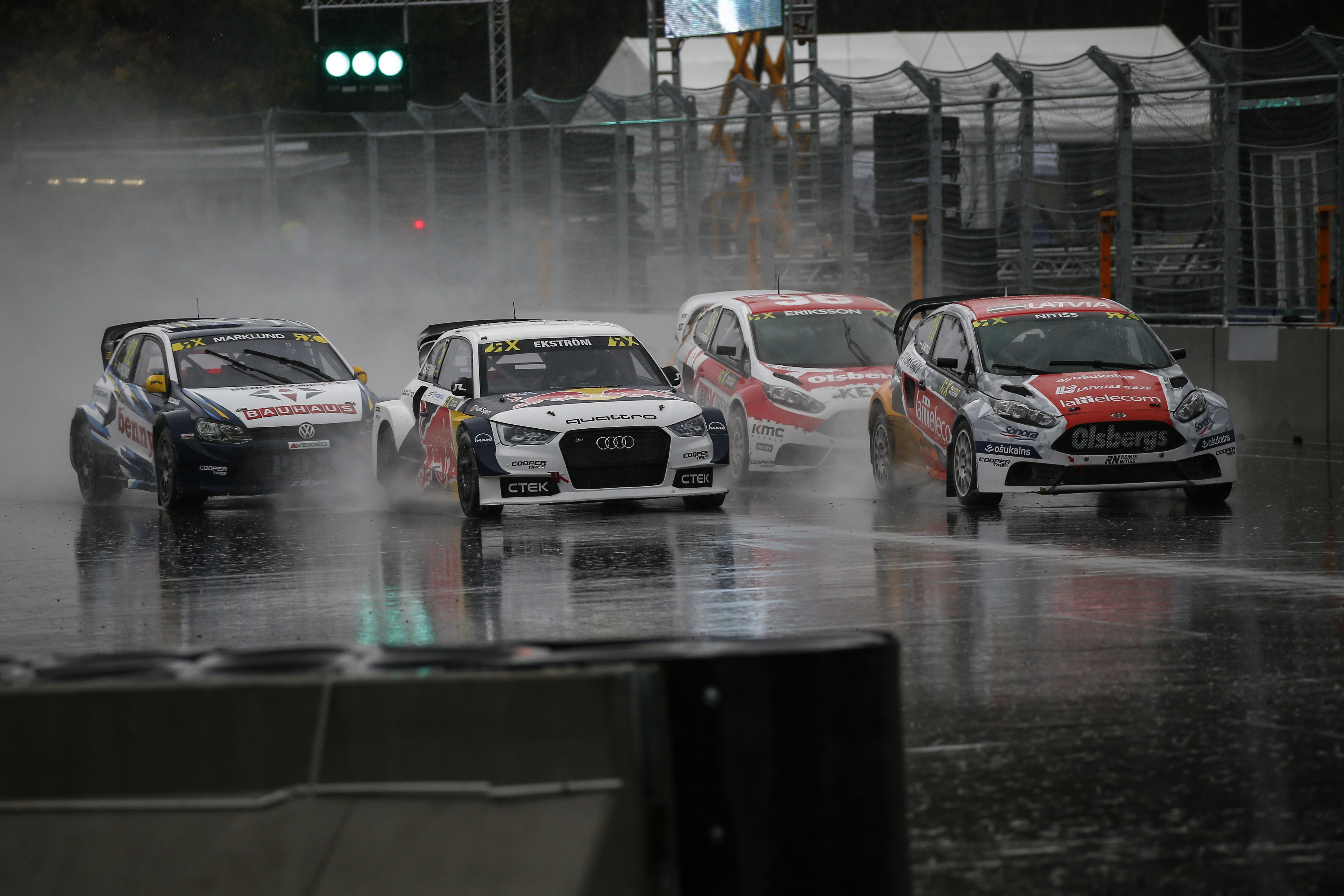 2016 FIA World RX Rallycross Championship / Round 10, Riga, Latvia, October 1-2 2016 // Worldwide Copyright:Tony Welam/EKS/McKlein